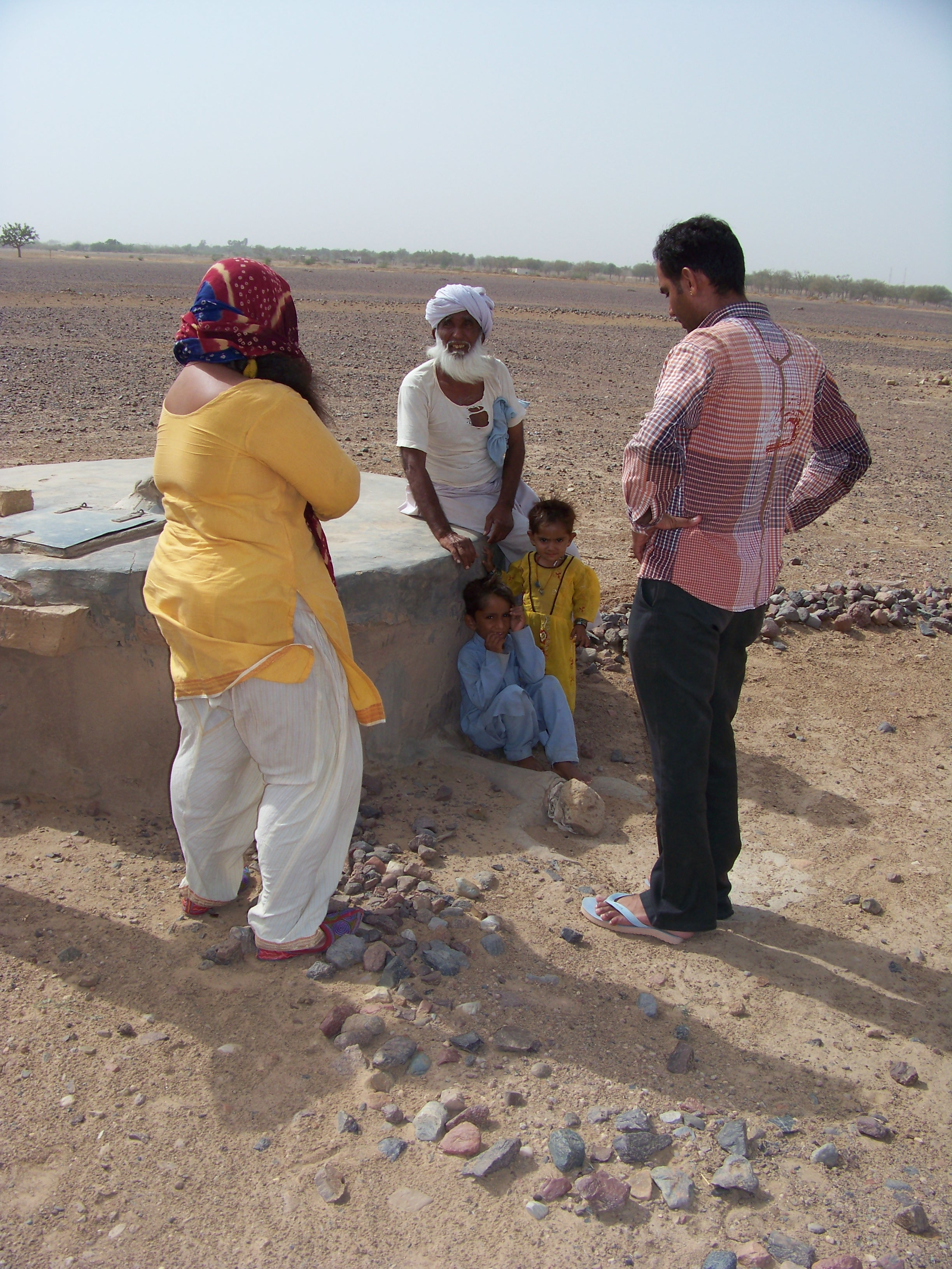 GRAVIS employees interview Thar Local at Taanka